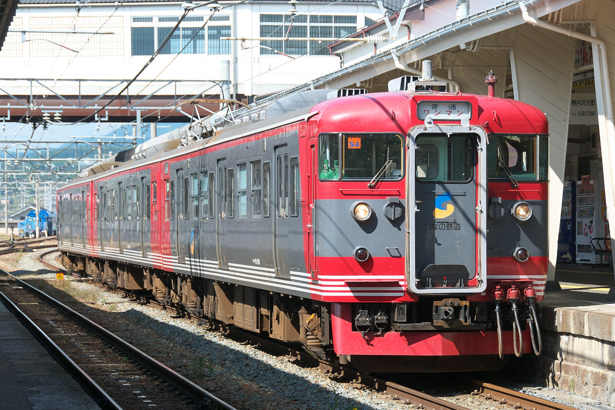 Shinano Railway 115 series in Komoro Station.